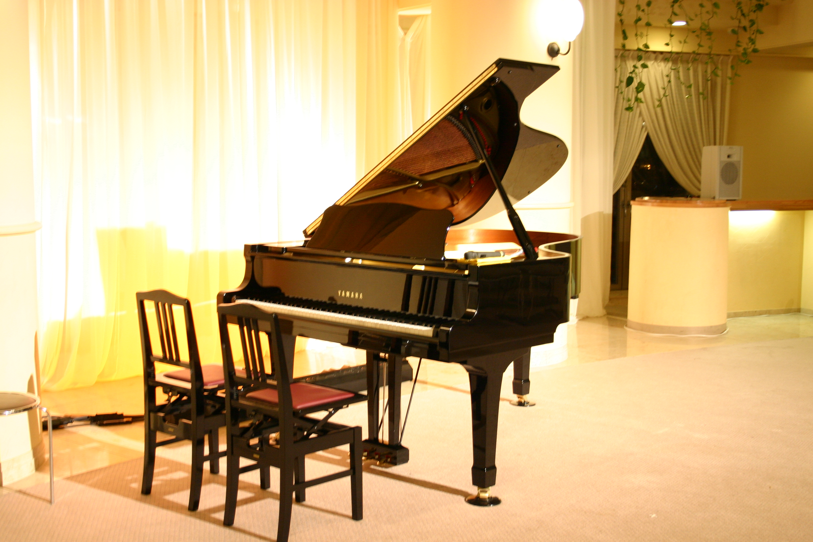 Piano for two players.